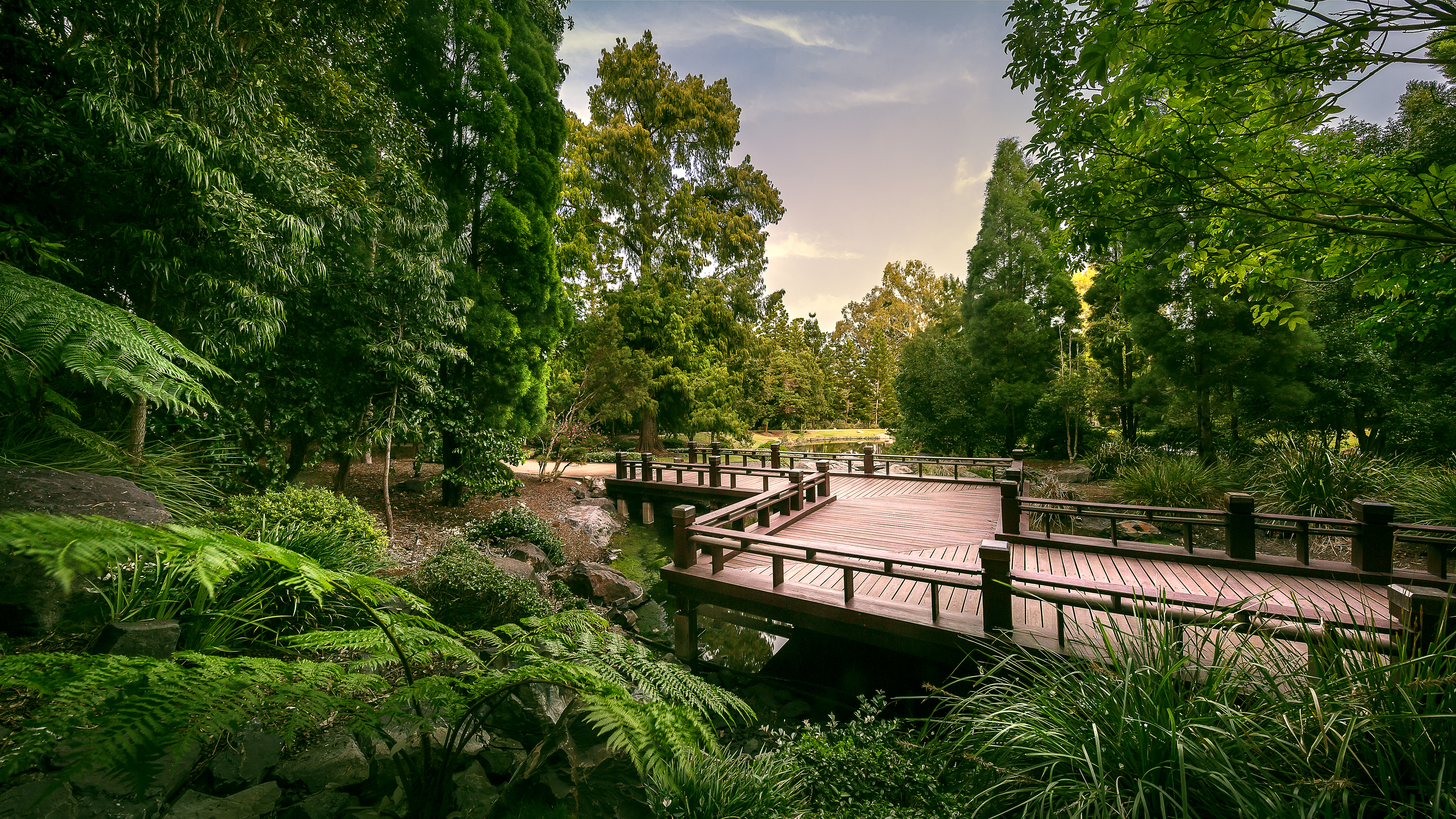 The boardwalk at Nerima Gardens in Queens Park, Ipswich